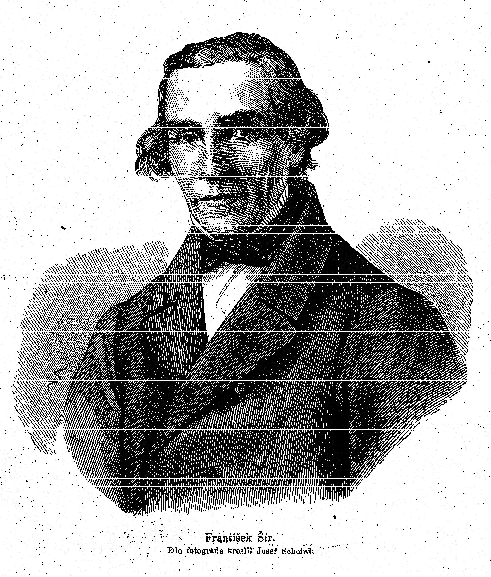 Portrait of František Šír (1796 - 1867), high school teacher and promoter of Czech culture in Jičín.